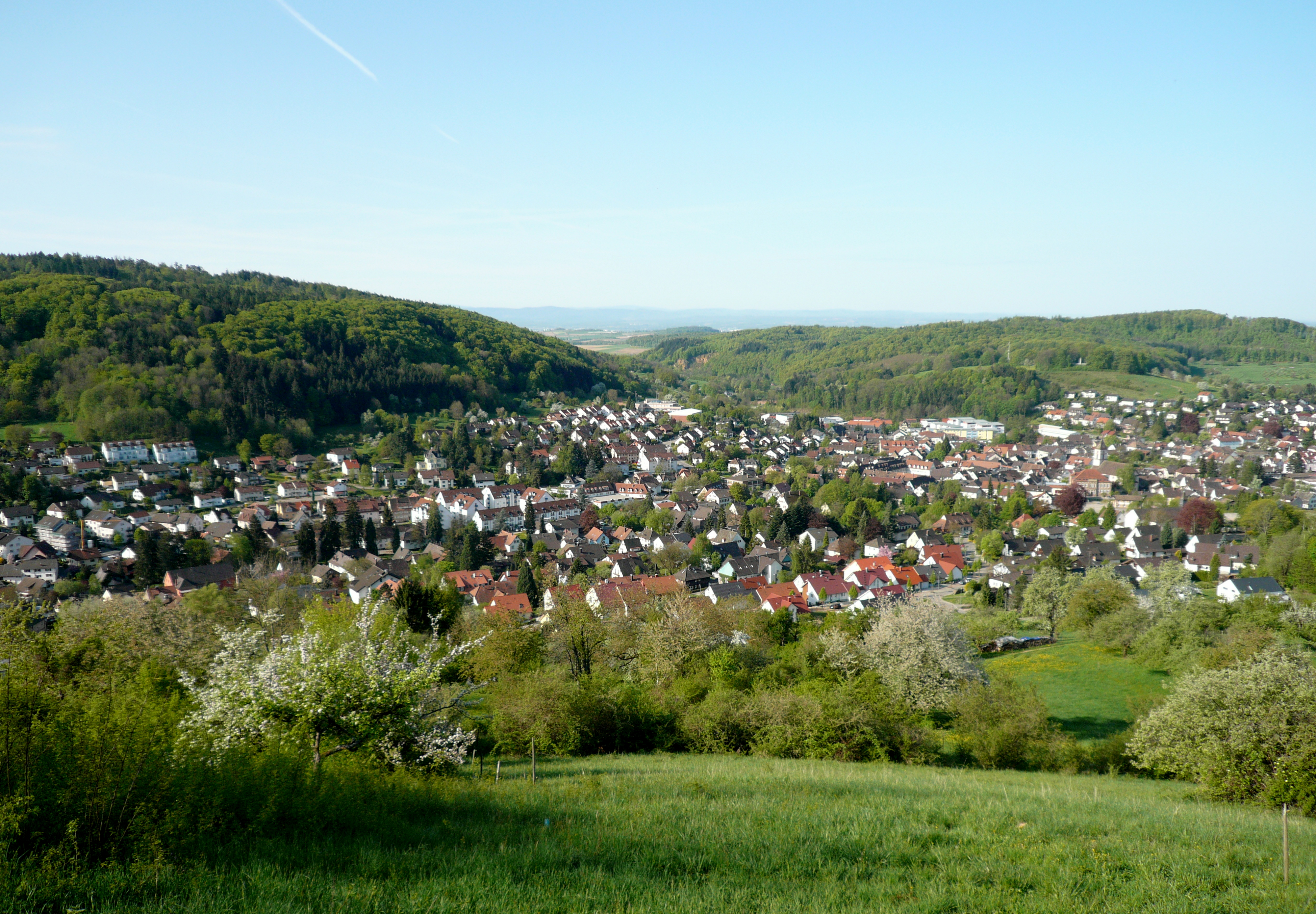 Town of Kandern, seen from the hilltop of the Häßler. The hill in the background right is the Böscherzen, topped by the war memorial.